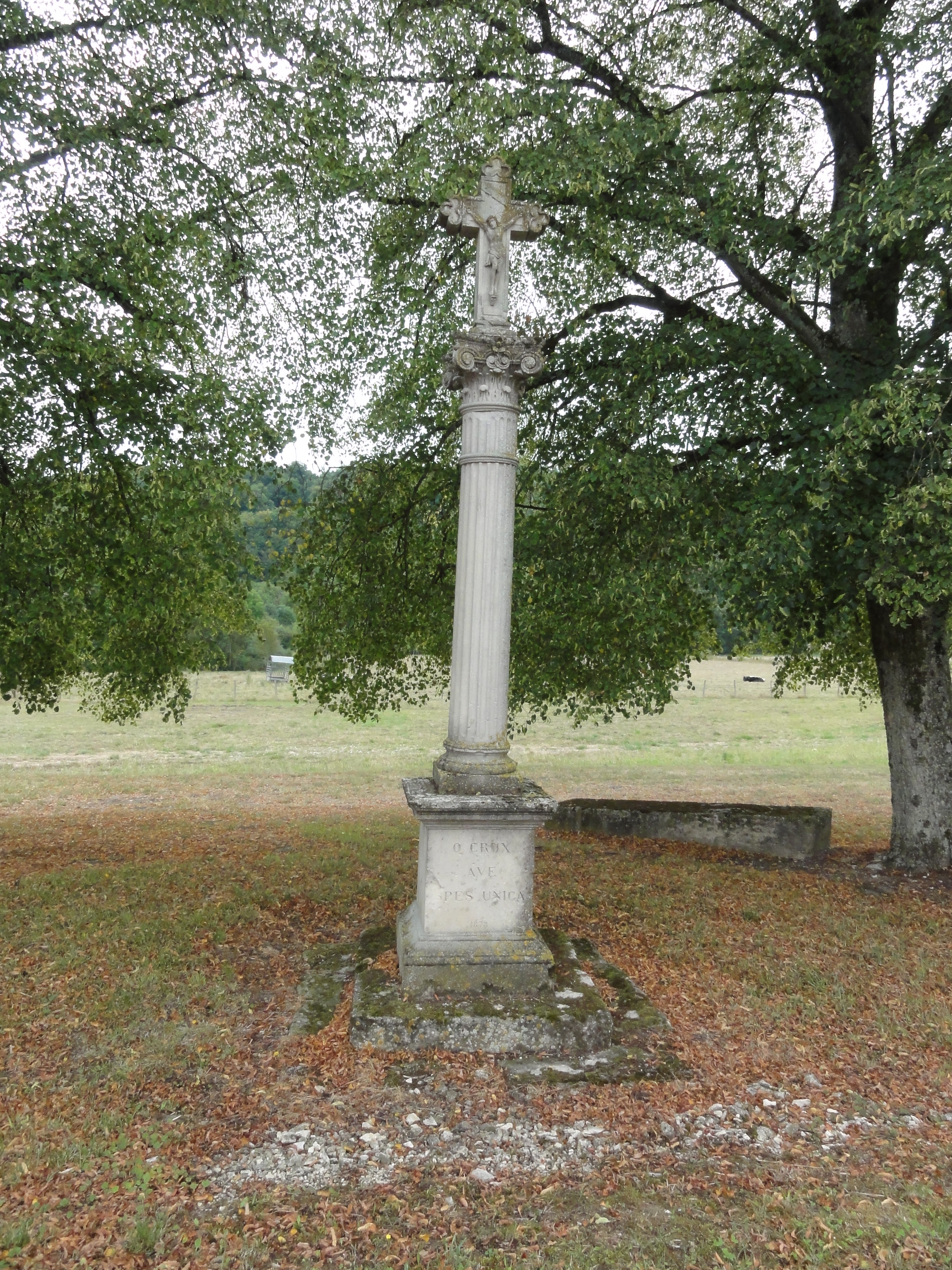 Boviolles (Meuse) croix de chemin